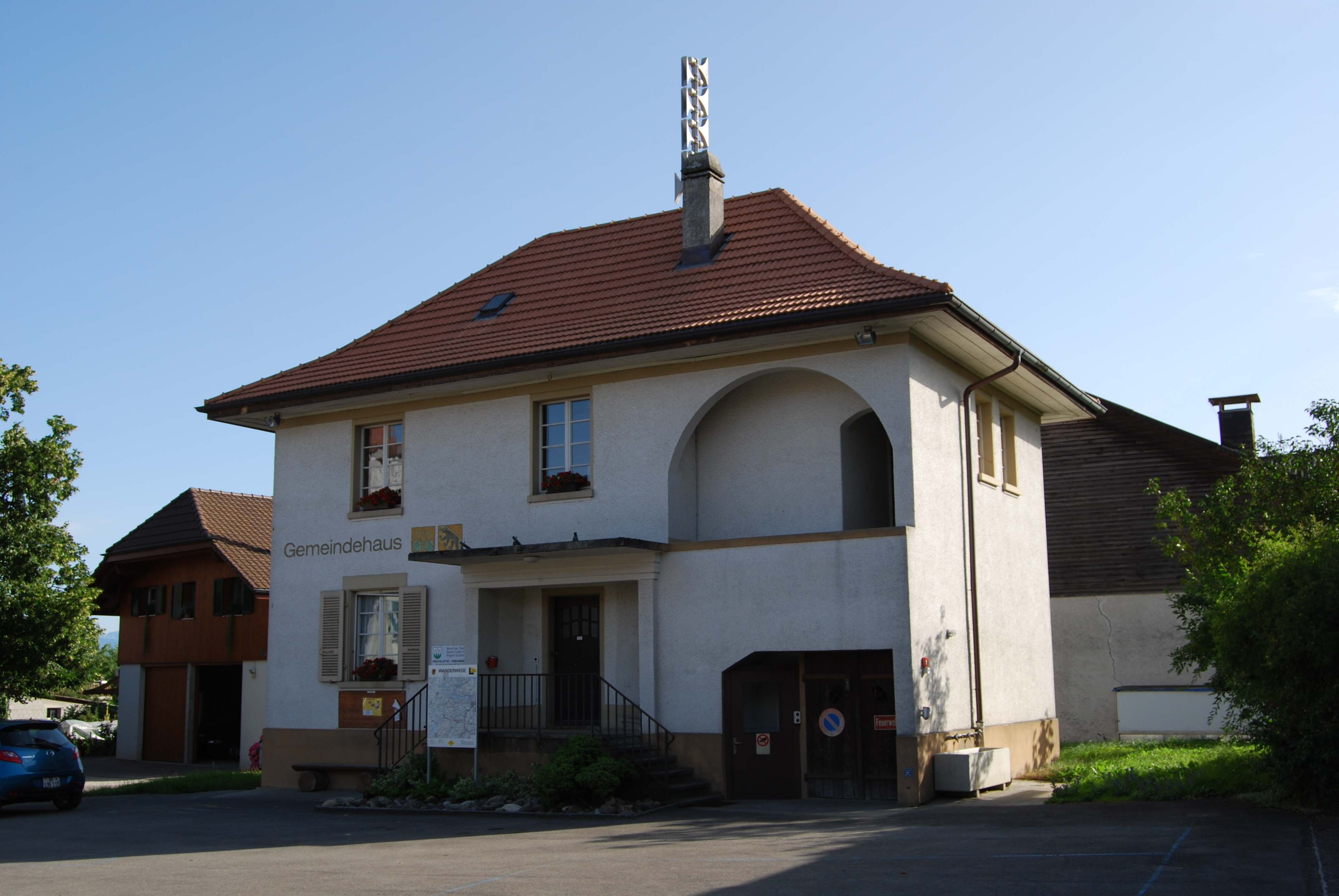 Wileroltigen, canton of Bern, SwitzerlandEsperanto: Wileroltigen, Kantono Berno, Svislando